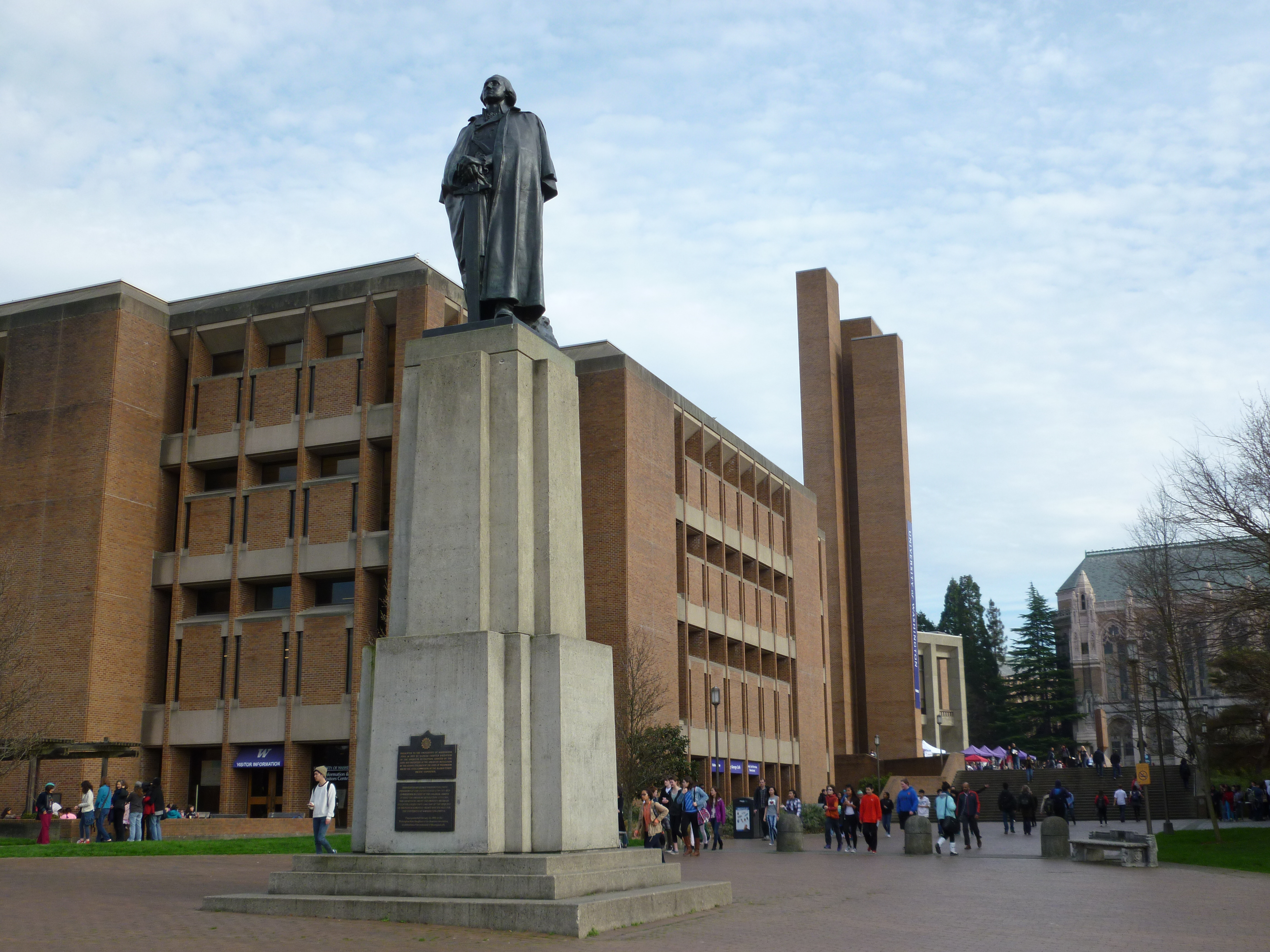 University of Washington, February 2014